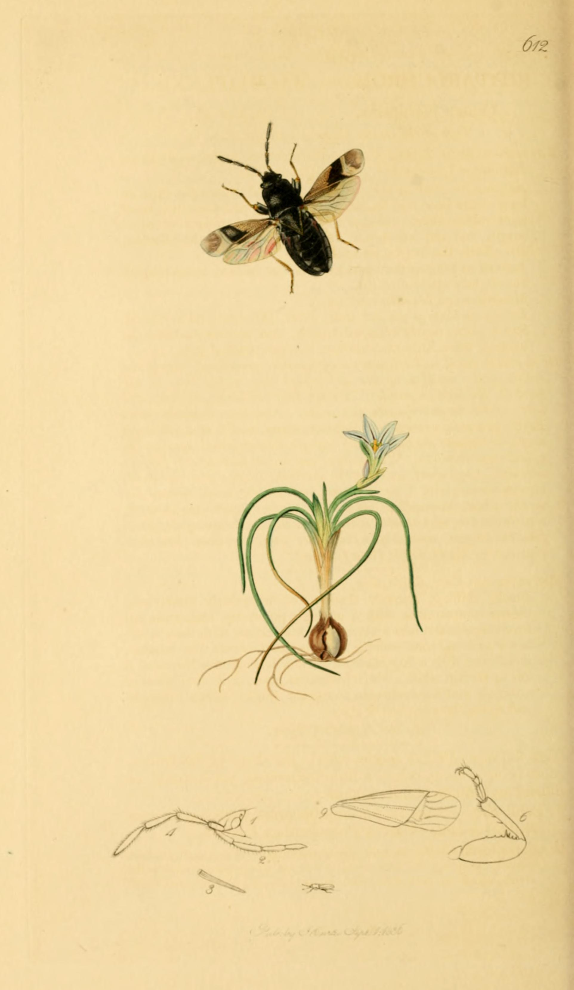 John Curtis British Entomology (1824-1840) Folio 612 Rhyparochromus maculipennis Curtis.The plant is Romulea columnae (Sand Crocus)